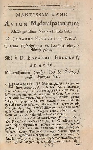 John Ray's Page on the birds of Madras or Fort St. George based on the birds noted by Edward Buckley and communicated to Jacob Petiver. Joannis Raii Synopsis methodica avium & piscium : opus posthumum